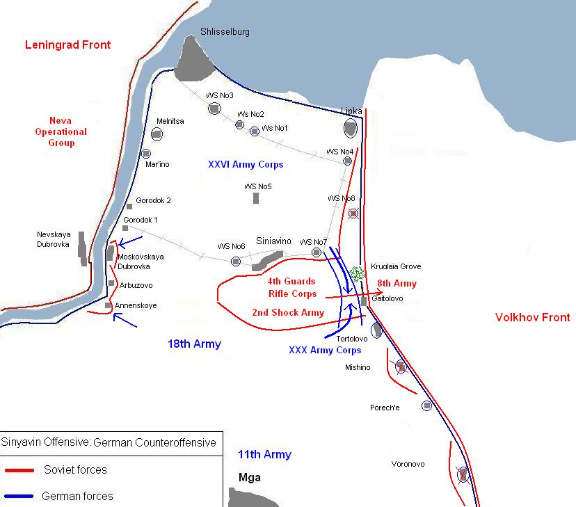 Frontline during the Sinyavin offensive on September 25 The information of troops positions and advance based on Glantz (2004).